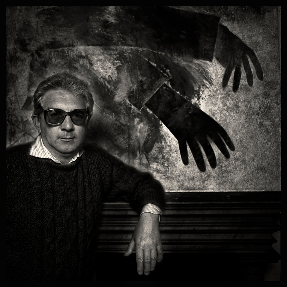 Portrait: Gianni Pisani - Augusto De Luca photographer